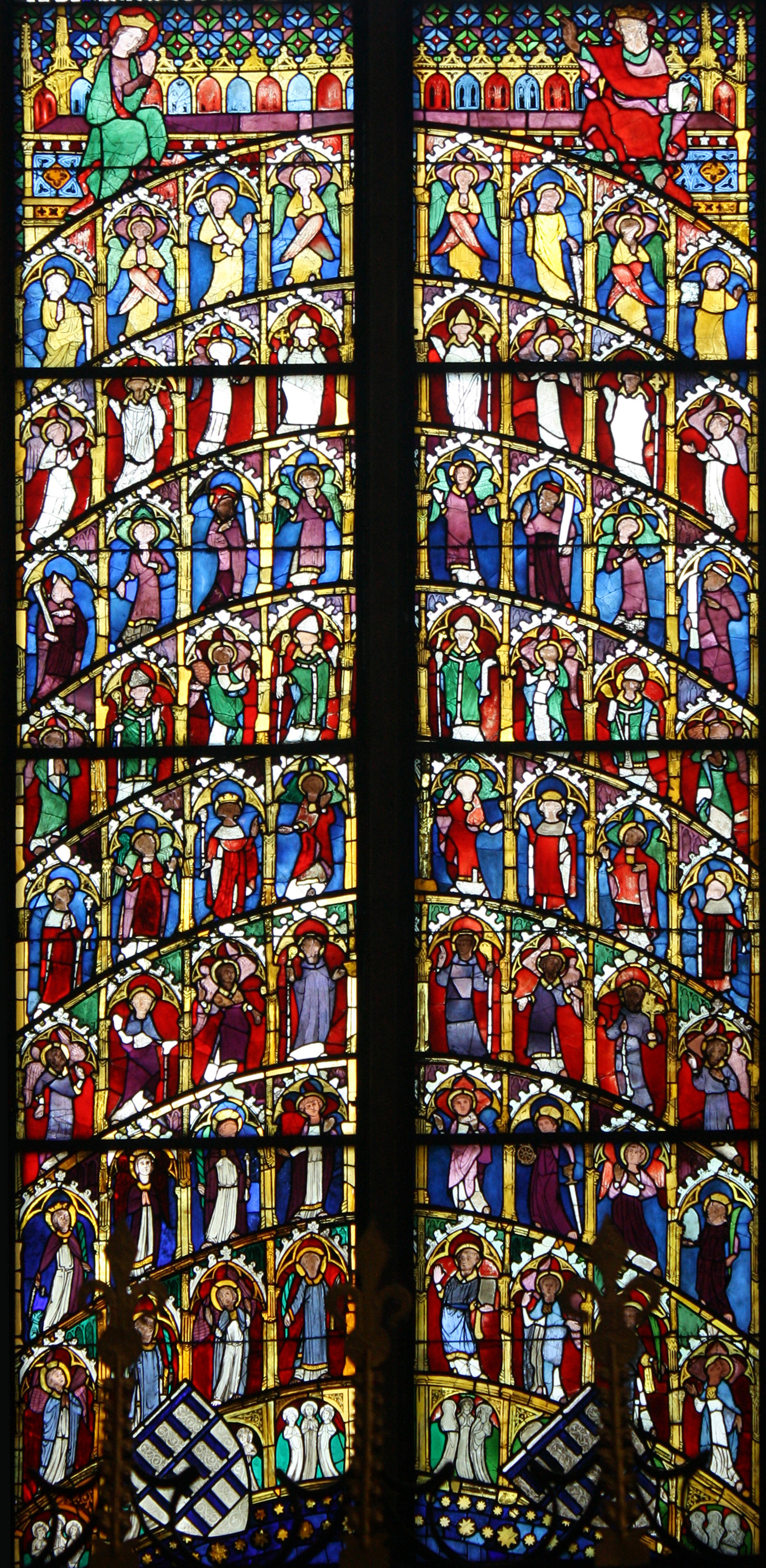 Cologne Cathedral. The All Saints window, c.1330